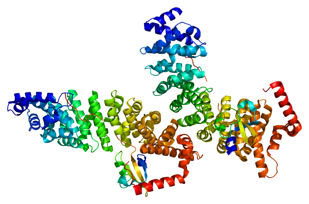 Structure of the KPNA1 protein. Based on PyMOL rendering of PDB 2jdq.